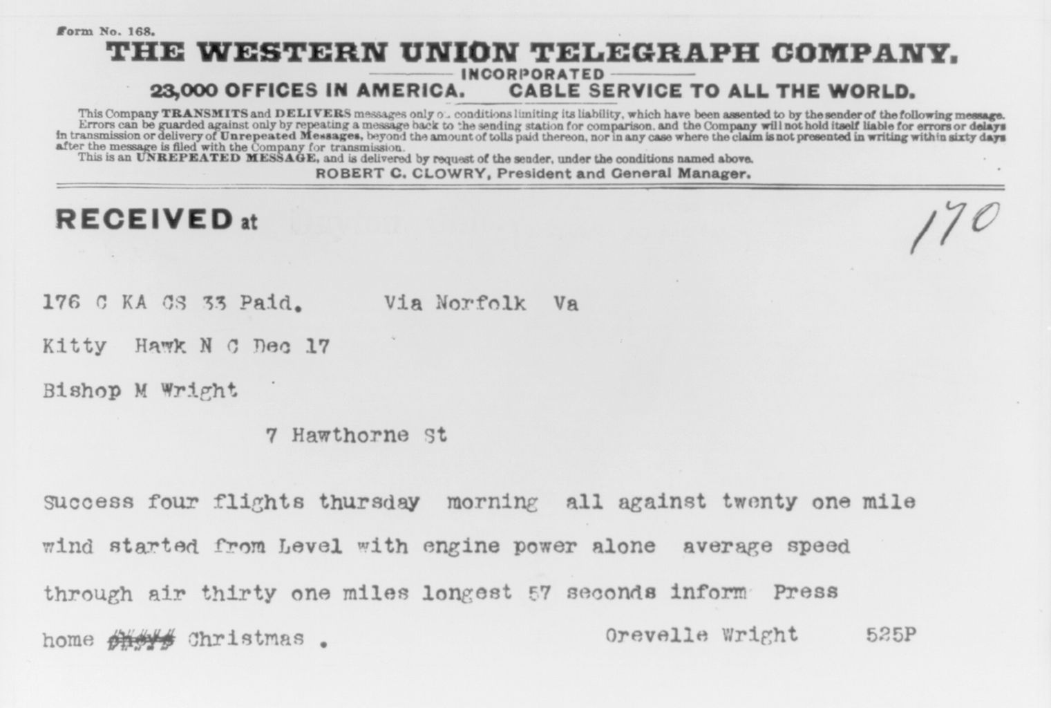 "Telegram from Orville Wright in Kitty Hawk, North Carolina, to His Father Announcing Four Successful Flights, 1903 December 17", 1903